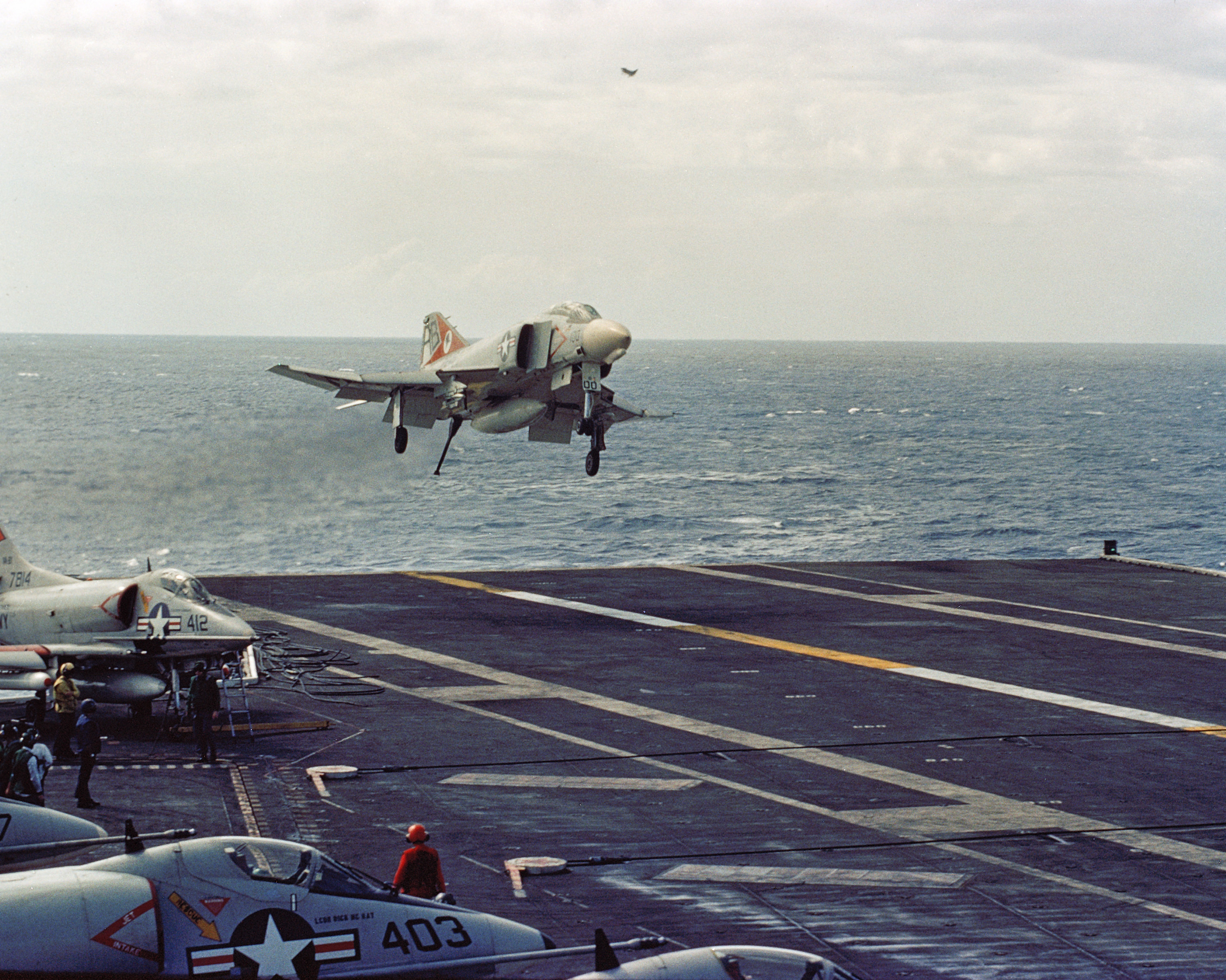 A U.S. Navy McDonnell F-4B Phantom II of Fighter Squadron 14 (VF-14) "Tophatters" approaches for a landing aboard the aircraft carrier USS John F. Kennedy (CVA-67) on 9 December 1968. Douglas A-4C Skyhawks of Attack Squadron 81 (VA-81) "Sunliners" are visible in the foreground. VF-14 was assigned to Attack Carrier Air Wing 1 (CVW-1) aboard the John F. Kennedy for her shakedown cruise to the Caribbean Sea from 2 November to 16 December 1968.